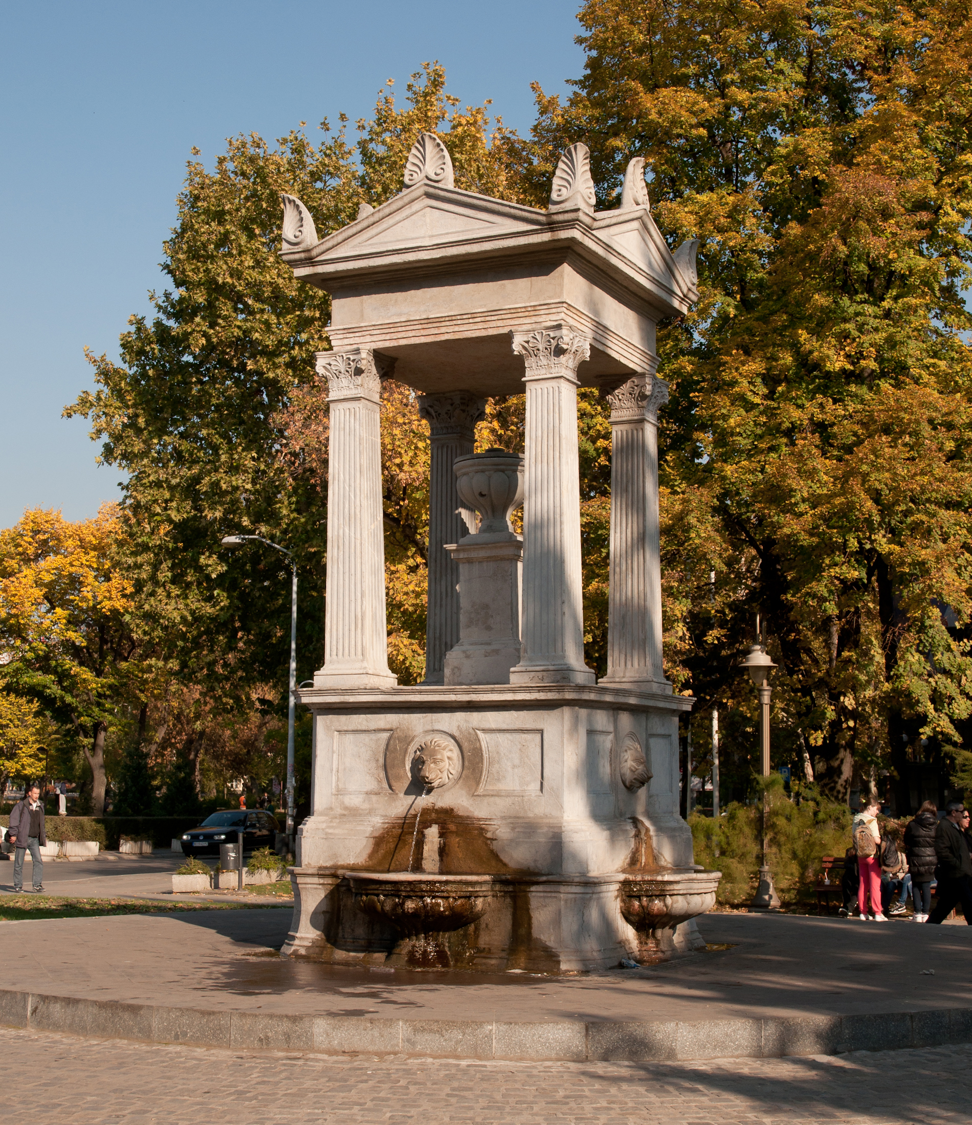 The Old Fountain at main square in Niš, Serbia.